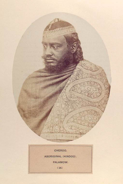 This image is from the book, The People of India, a series of photographic illustrations, with descriptive letterpress, of the races and tribes of Hindustan, originally prepared under the authority of the government of India, and reproduced. by J. Forbes Watson and John William Kaye between 1868 - 1875.